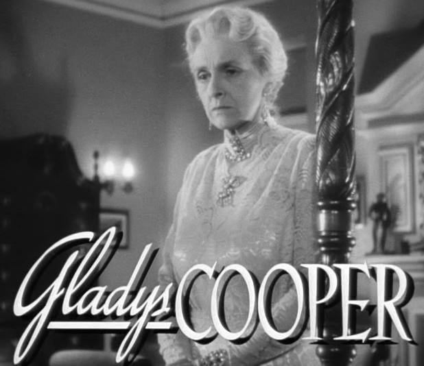 Cropped screenshot of Gladys Cooper from the trailer for the film Now, Voyager (1942).